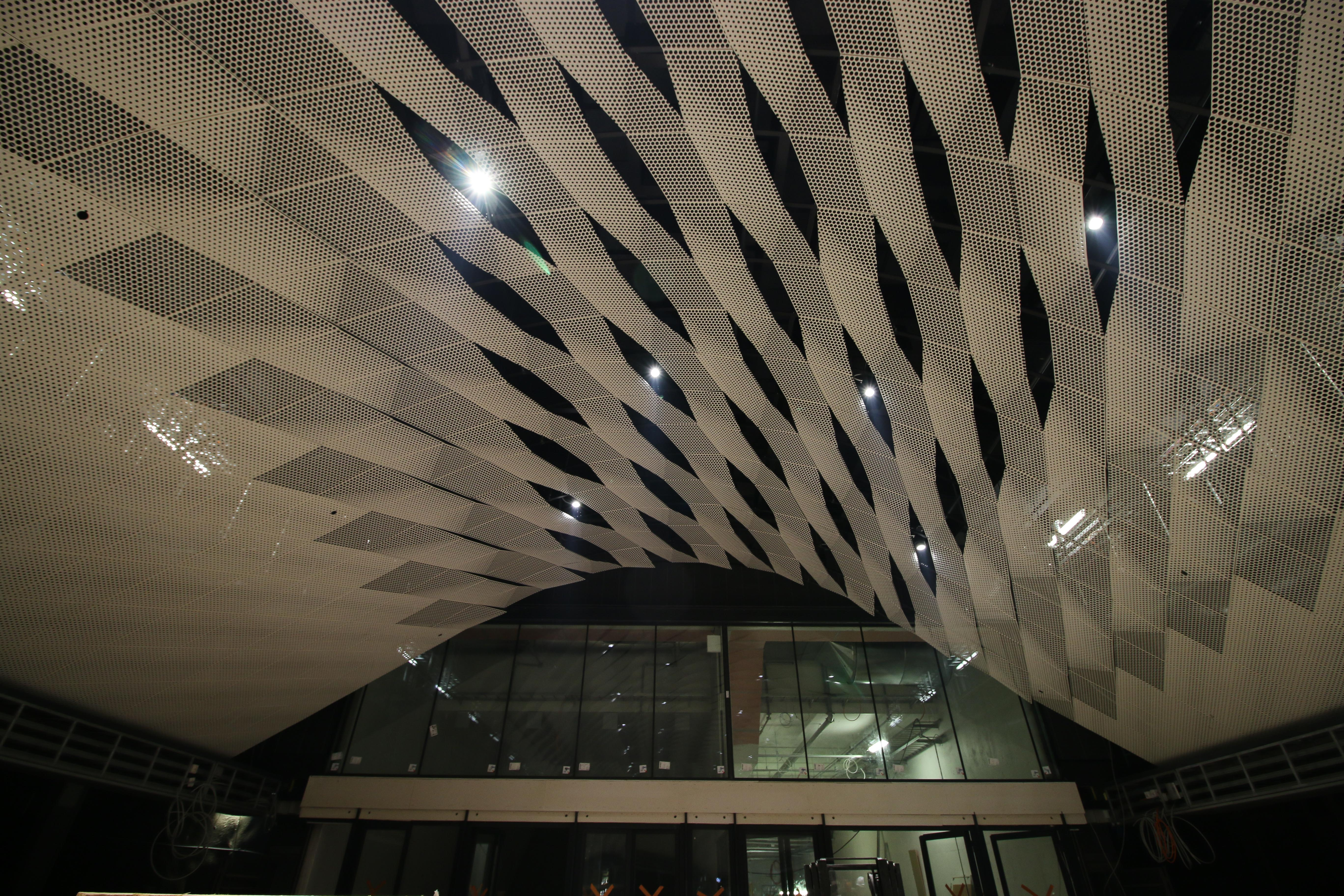 Matinkylä metro station, Espoo, Finland.